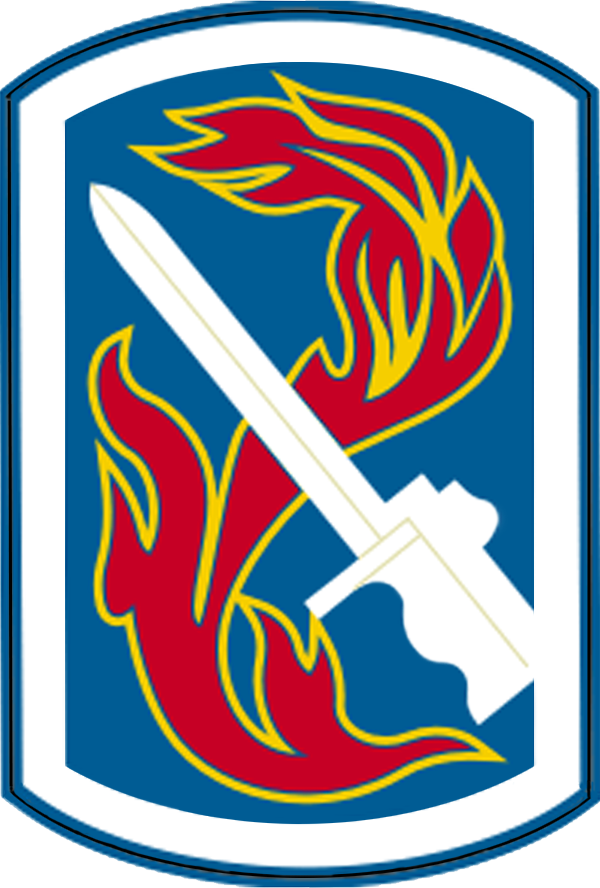 United States Army 198th Light Infantry Brigade insignia. Made with Photoshop.